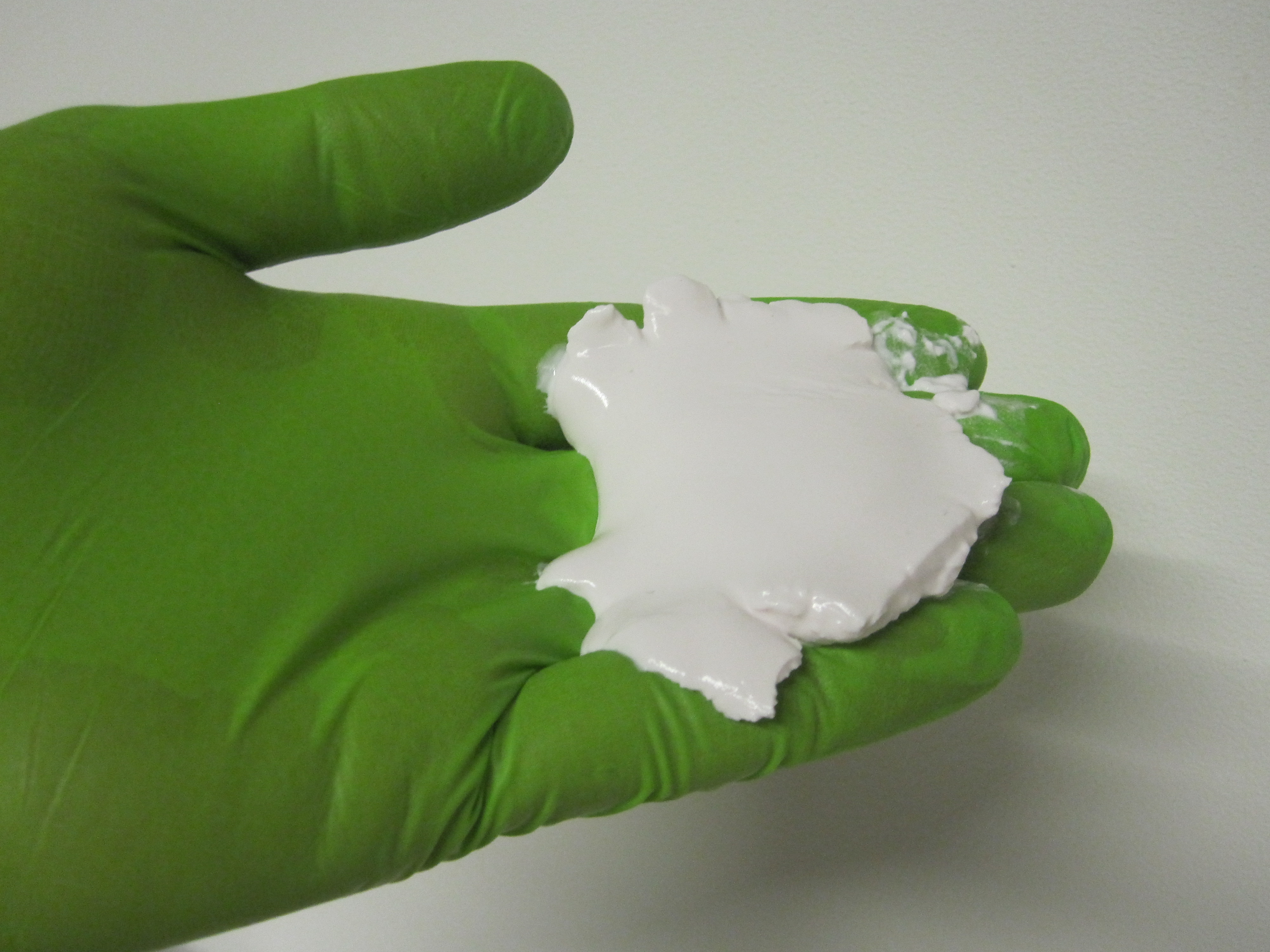 A damp filter cake of freshly precipitated Manganese (II) Carbonate; a very faint (if visible) faint pink.